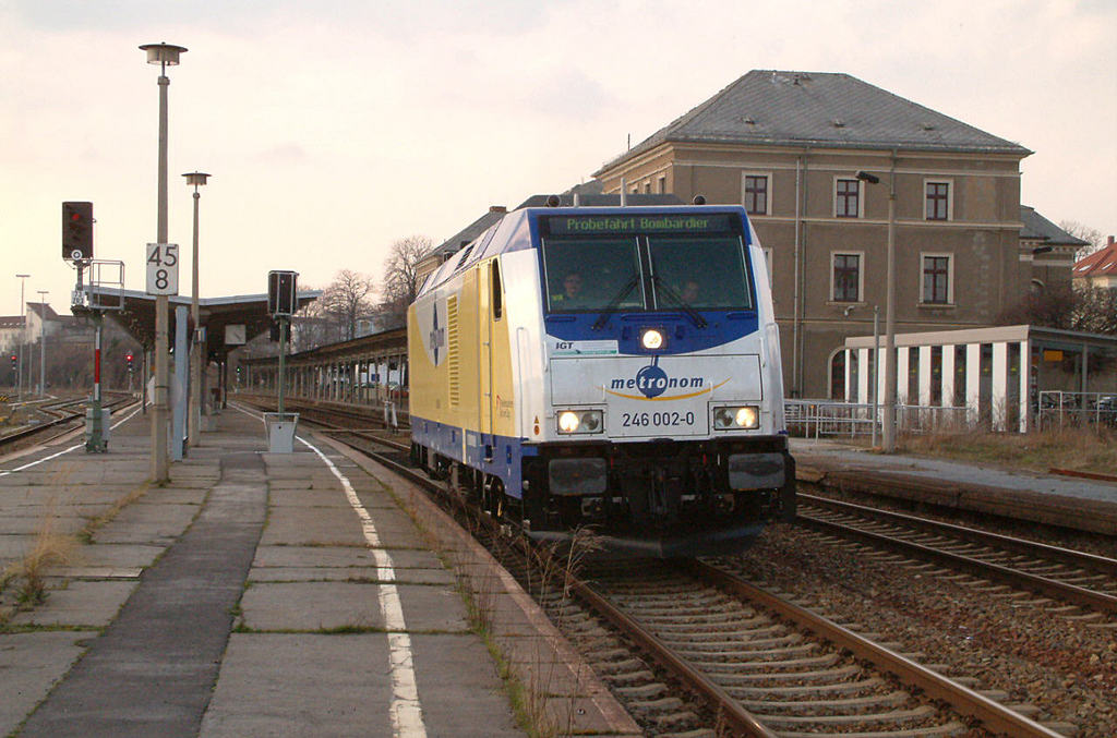 246 002-0 on test at Bautzen